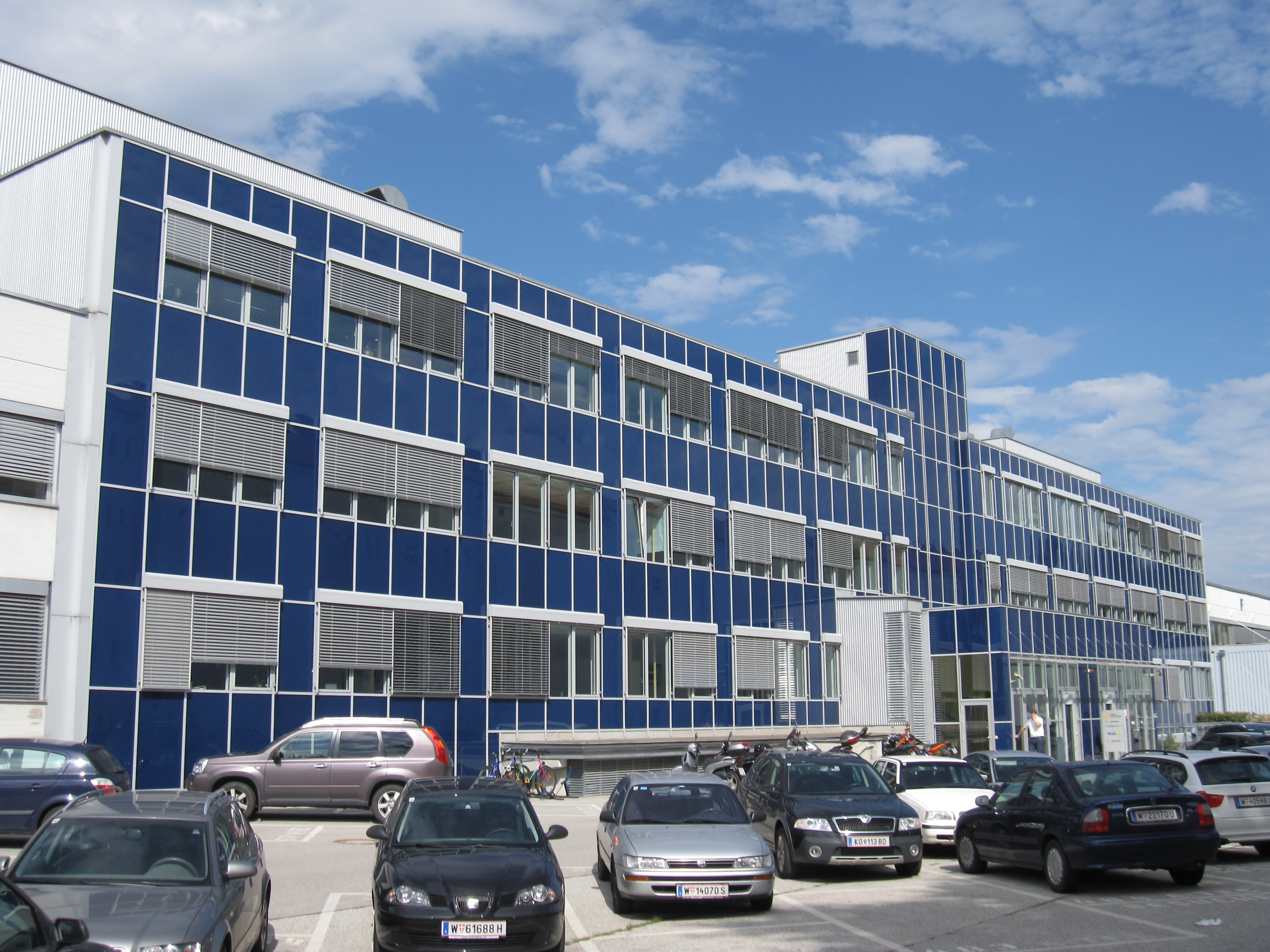 Headquarters of Bostelmann in Vienna, close to Brünner Strasse.